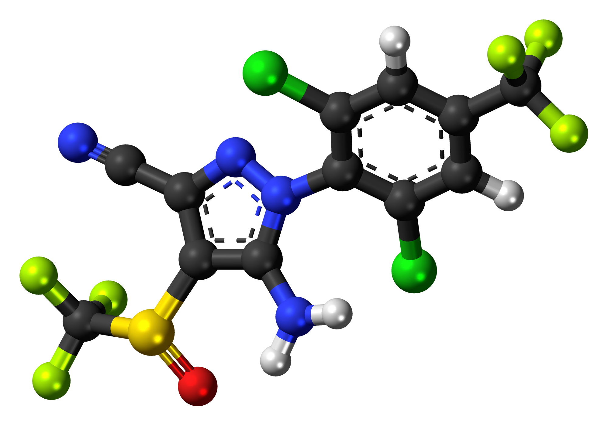 Ball-and-stick model of the fipronil molecule, an insecticide. Colour code: Carbon, C: black Hydrogen, H: white Oxygen, O: red Nitrogen, N: blue Yellow-green: Fluorine, F Sulfur, S: yellow Chlorine, Cl: green